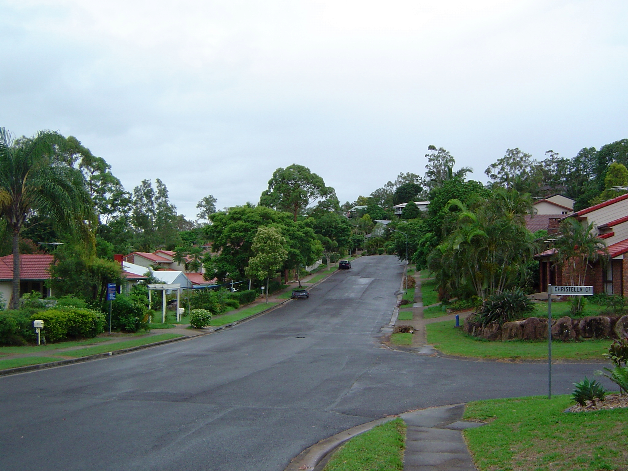 Photo of Mirbelia Street, Kenmore Hills, Brisbane, Queensland, Australia.